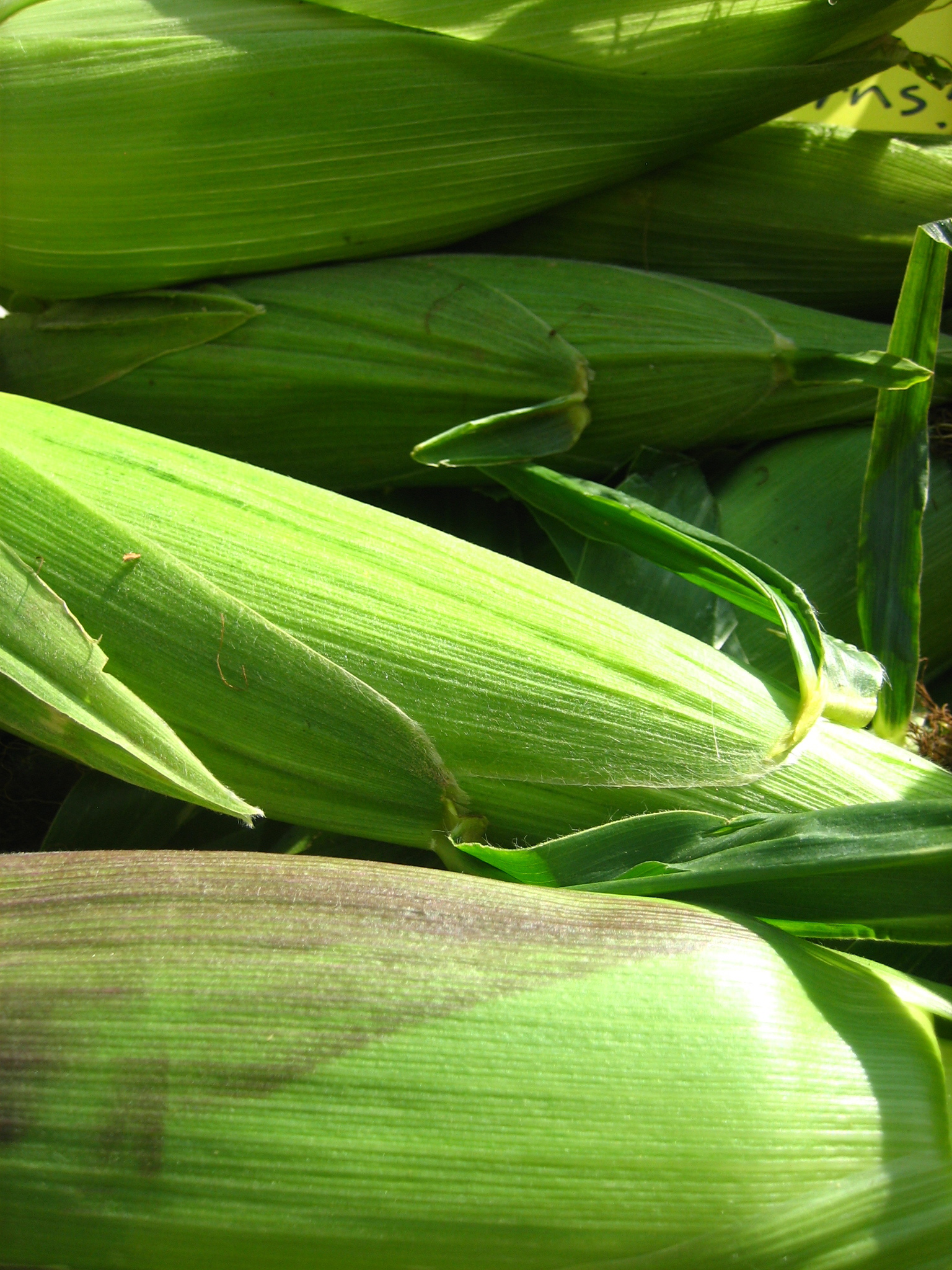 Corn husks